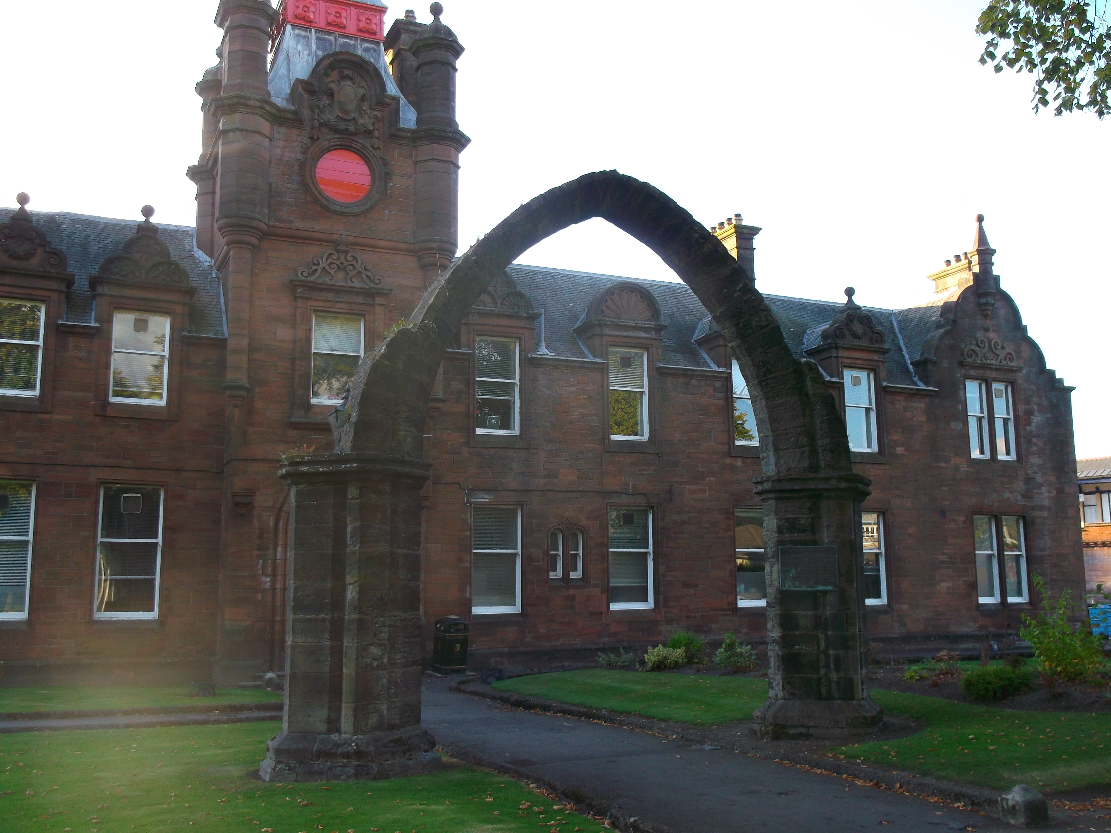 DUMBARTON, CHURCH STREET, MUNICIPAL BUILDINGS, COLLEGE BOW Plaque on the Bow says: One of the Tower Arches of St Mary's Collegiate Church Dumbarton. Founded ADMCCCCL by Isabella Countess of Lennox and Duchess of Albany. Its original position was on the site now occupied by the central railway station from which place it was removed in ADMDCCCL to a site in Church Street and again in MDCCCCVII this sole remnant of a once extensive pile was removed to its present position. Wikidata has entry Q17848284 with data related to this building.